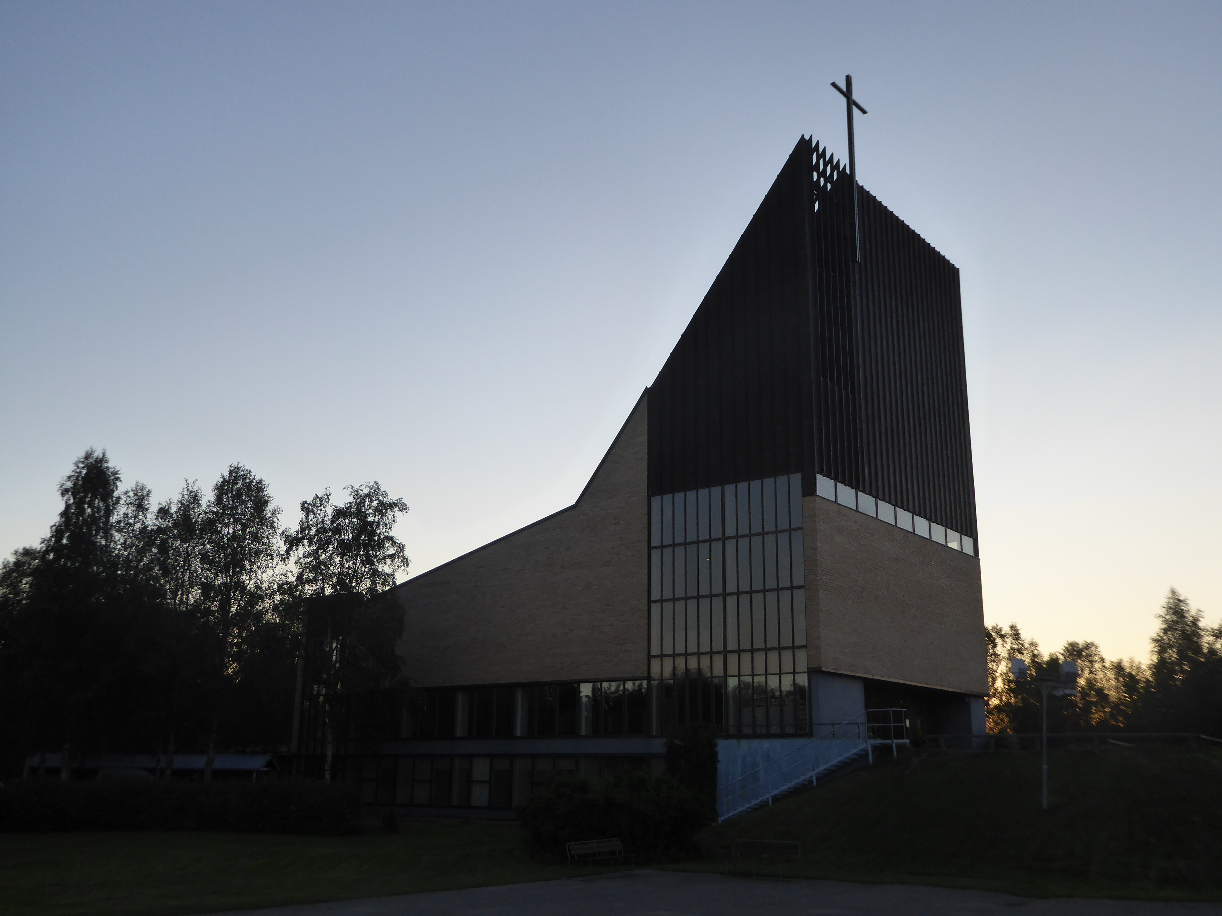 Inari, Ivalo Church. Wikidata has entry Q18662913 with data related to this item.